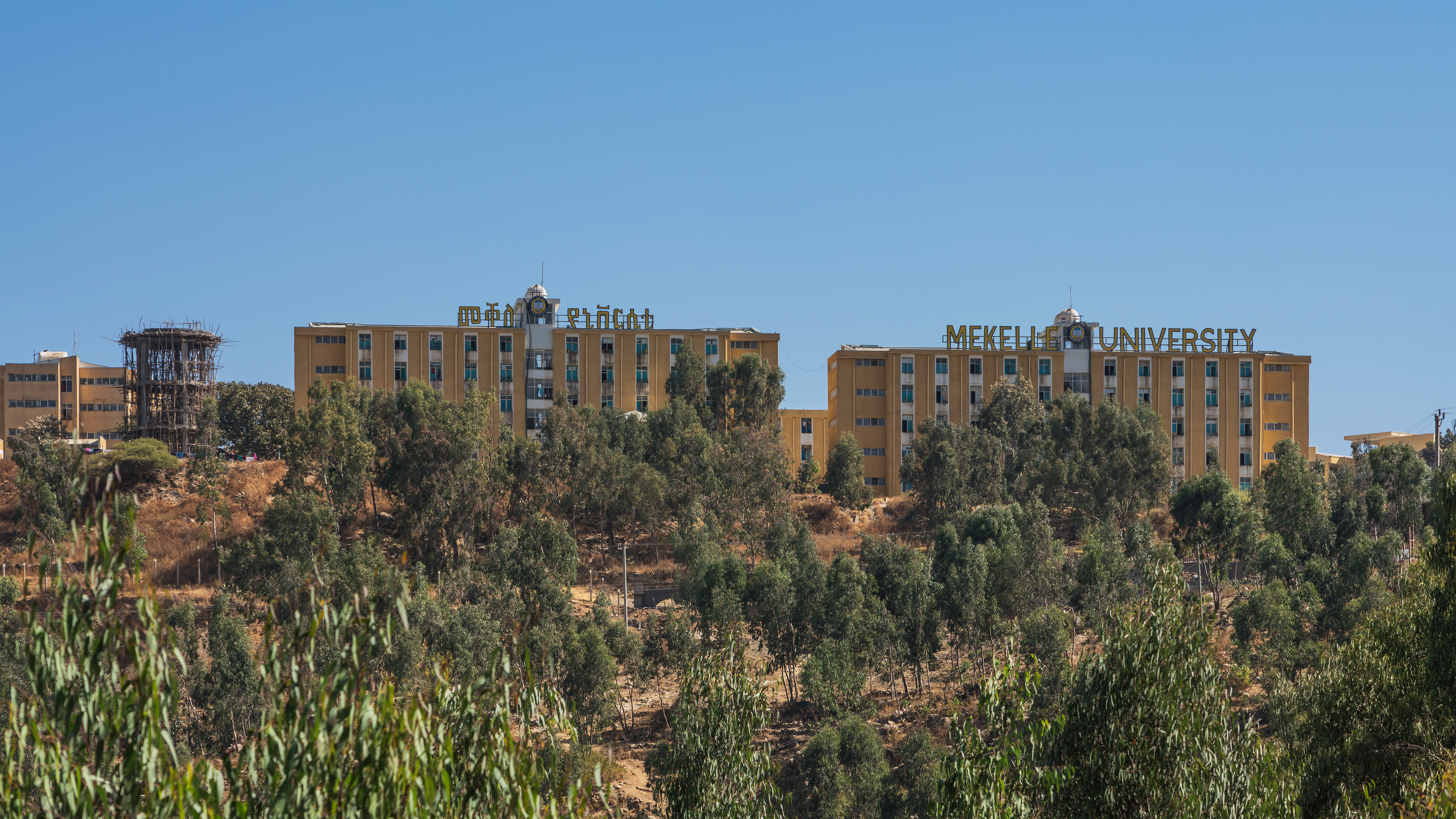 View to University in Mekele, Ethiopia